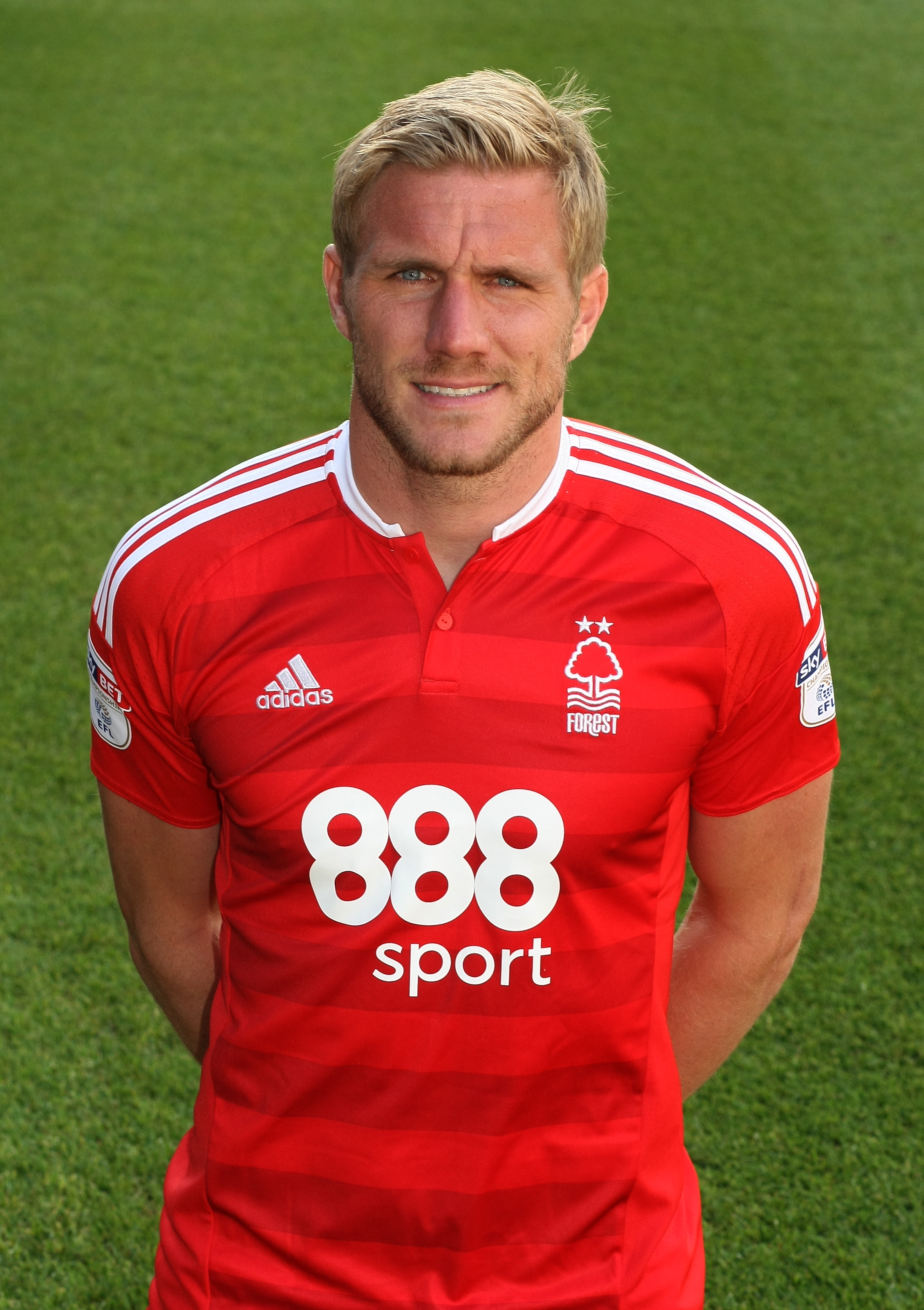 Damien Perquis in Nottingham Forest kit, 2016